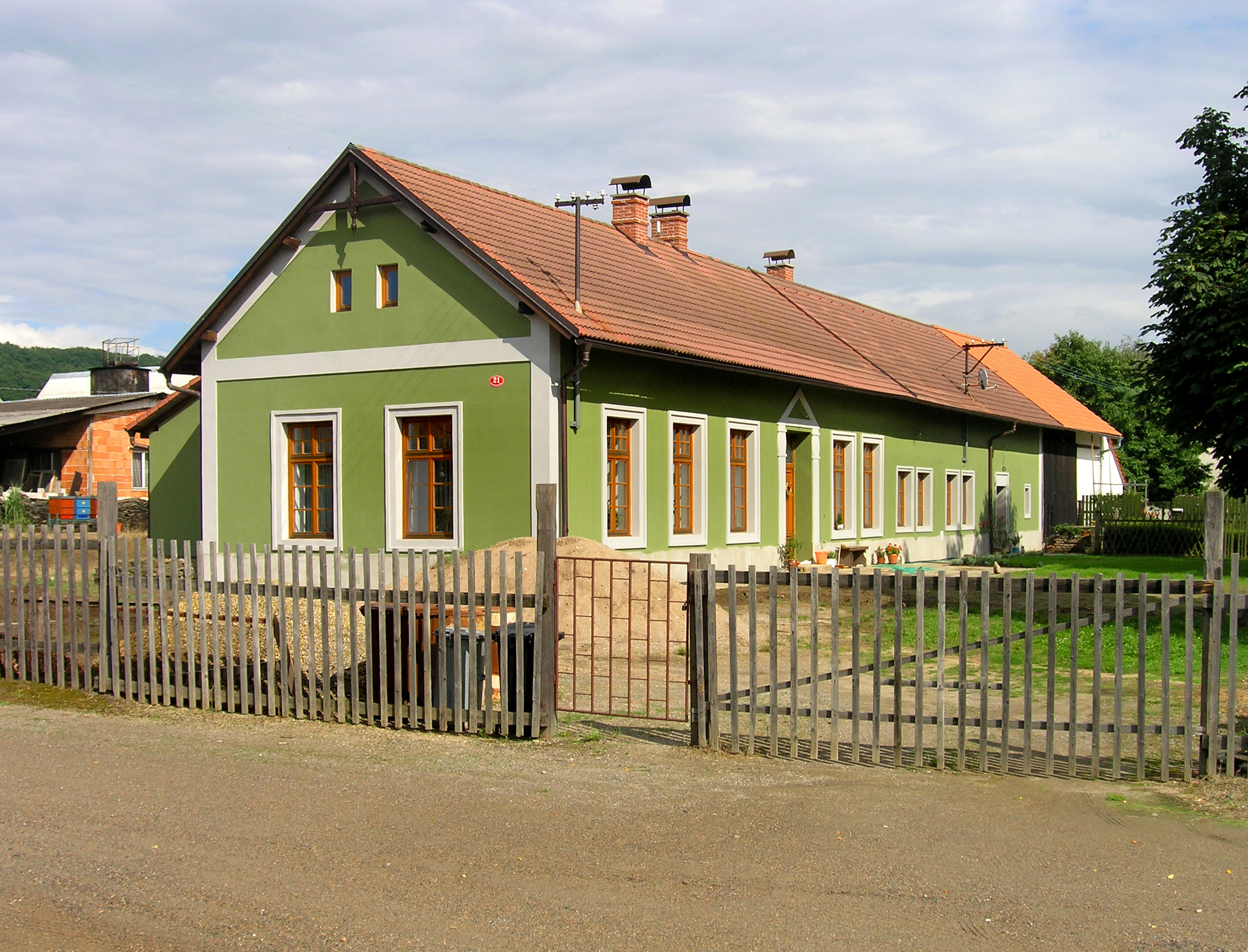 Svobodná Ves (local part Ovčiny), part of Horka I village, Czech Republic